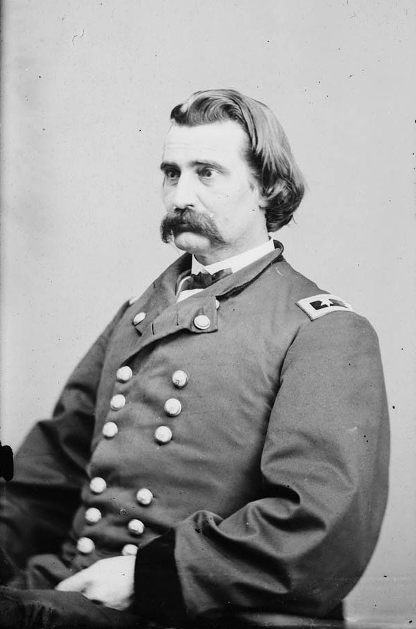 Major General John A. Logan